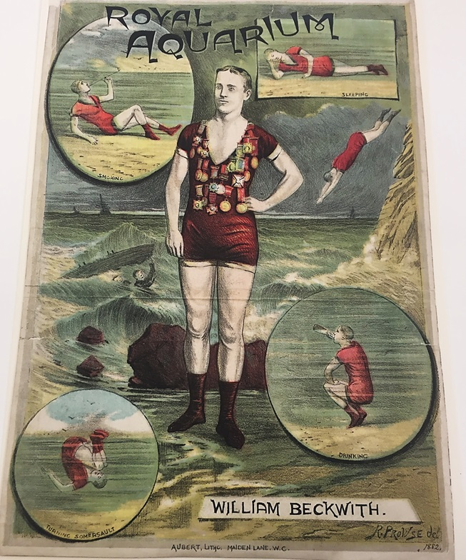 Promotion poster for the Royal Aquarium, representing british swimmer William Beckwith